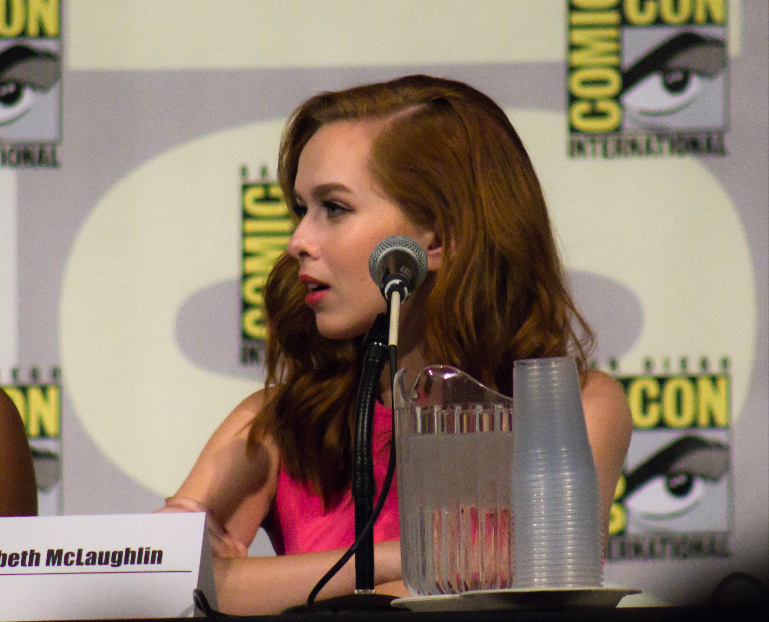 Elizabeth McLaughlin